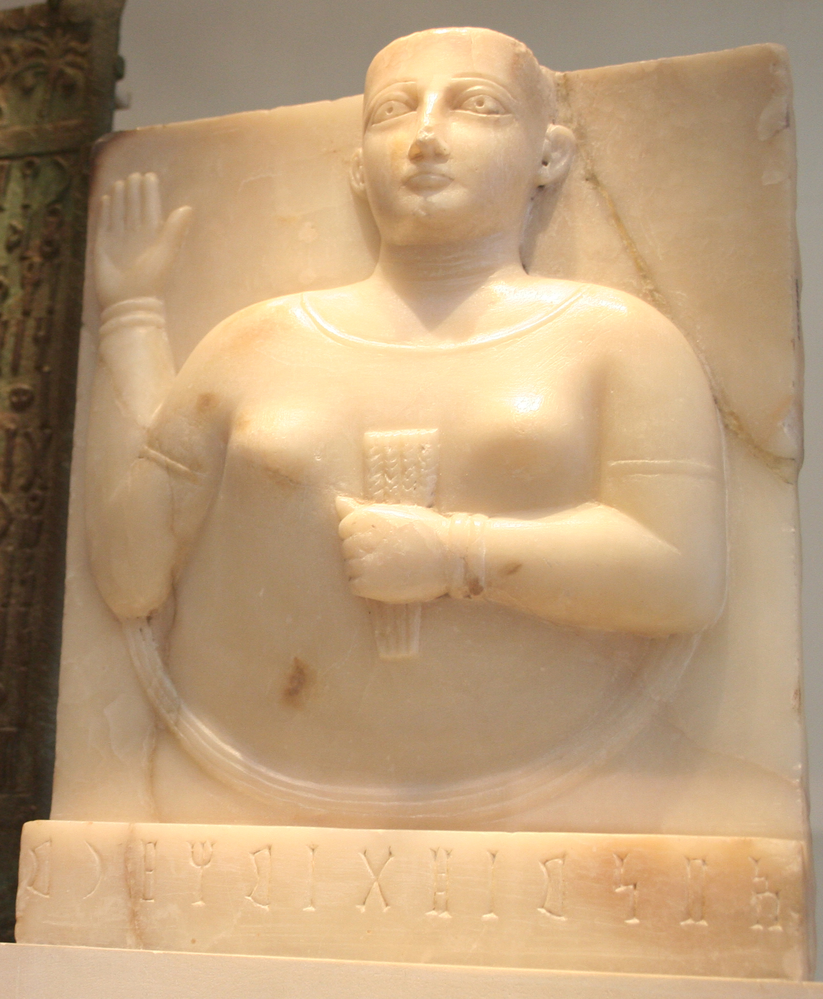 Art from Ancient Yemen, British Museum, London